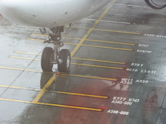 Marks on the ground indicative of the aircraft model, as seen next to a jet bridge.